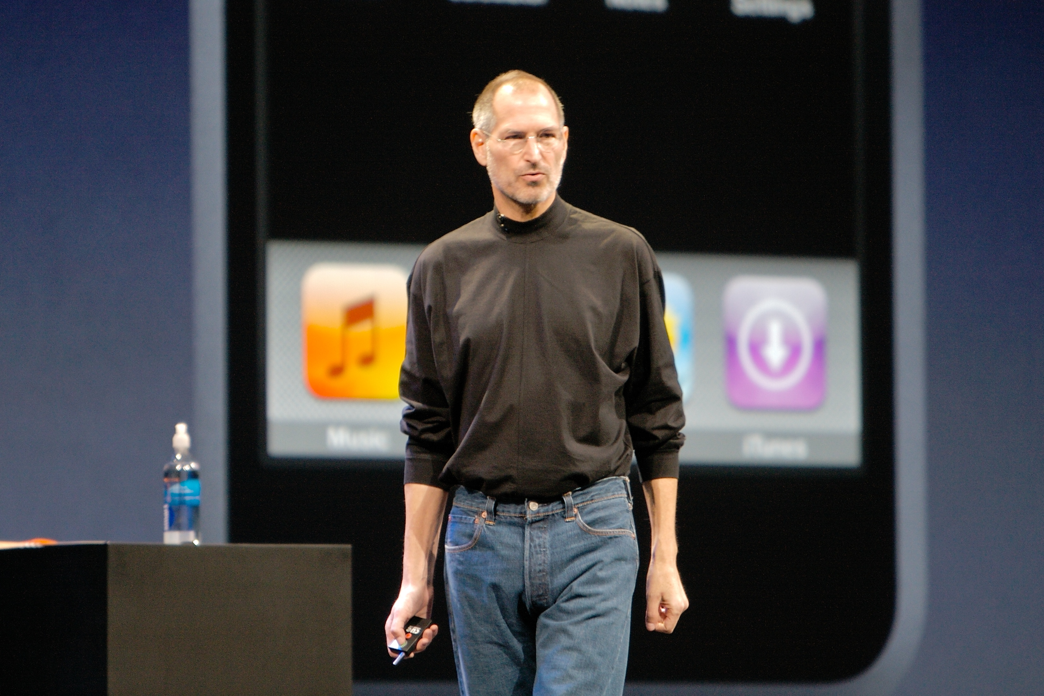 He's looking thin, I thought. I wonder how long he's planning to keep this up. I wonder if they know what they'd do if he retired. (If you want to use this photo or a crop of it somewhere, feel free. On the web, credit me by name with a link to the photopage on Flickr. In print, 'Photo by Tom Coates"